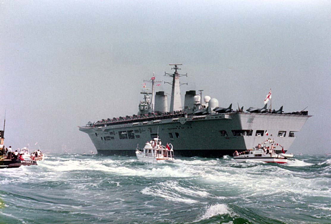 HMS Invincible returns to the Solent